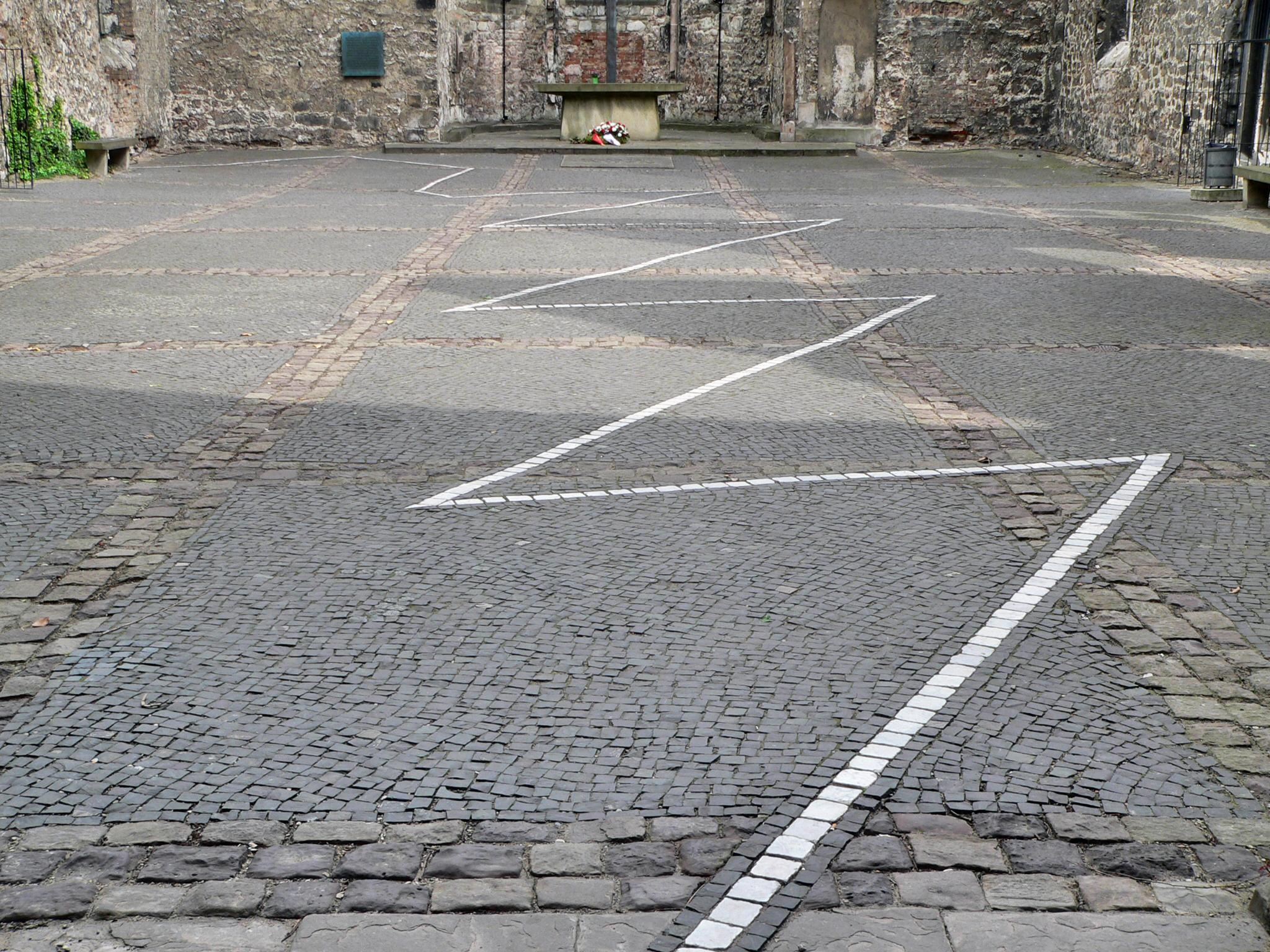 "Schattenlinie" by Dorothee von Windheim, 1993, in the church Aegidienkirche, Hannover, Germany.